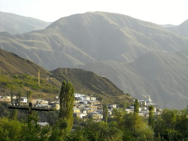 View of an historical part of the village of Akhty in South Dagestan.